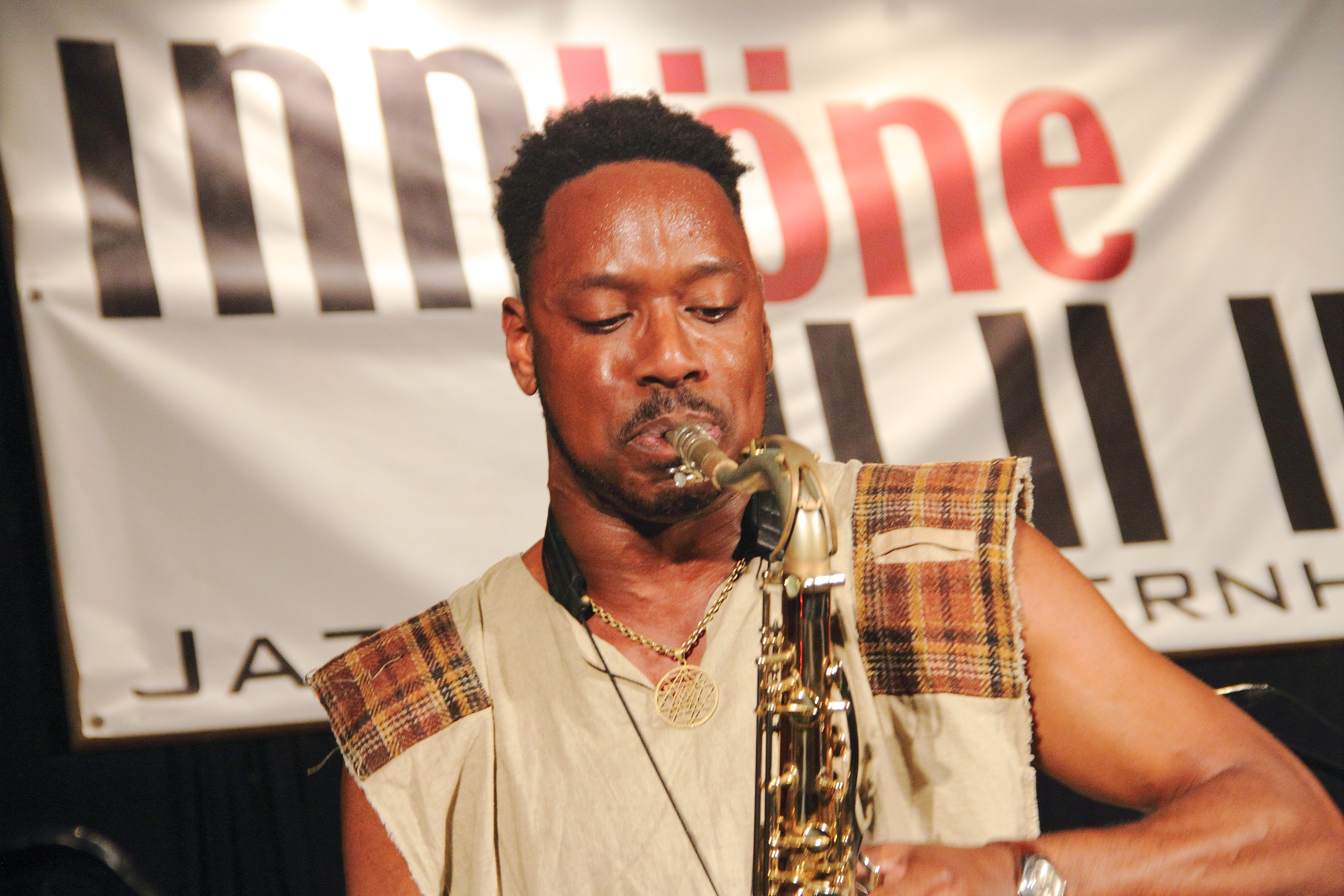 Shabaka Hutchings and Sons of Kemet at INNtöne Jazzfestival 2018.